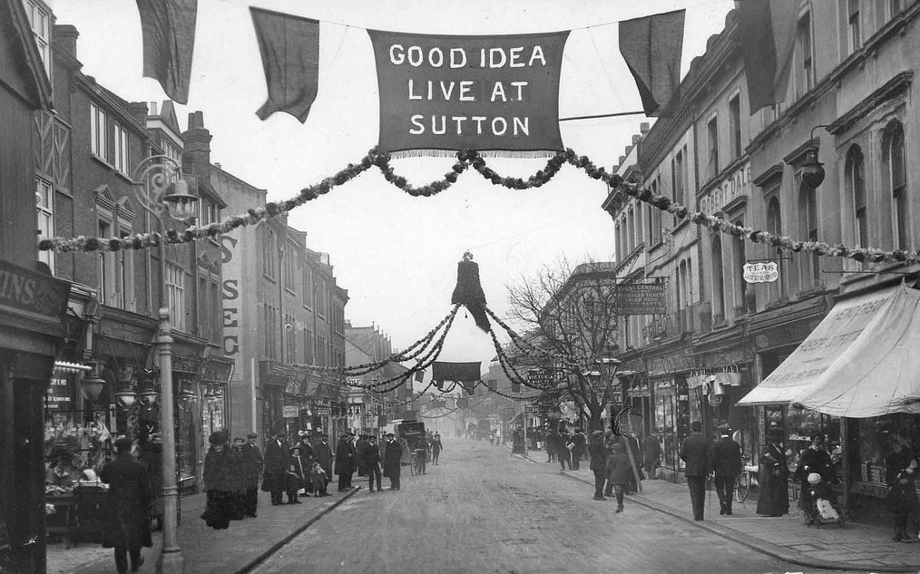 Sutton, Surrey in south London. This image is out of copyright and therefore in the public domain. There is no need to attribute it to me or anyone else. Use it however you like. Edits: - Removed Sutton Council logo watermarks from bottom left and top right. - Removed original hand-lettered caption: "1745. High Street, Sutton, Xmas Show Week 1910. S&W Series." Sutton Council's watermarked version